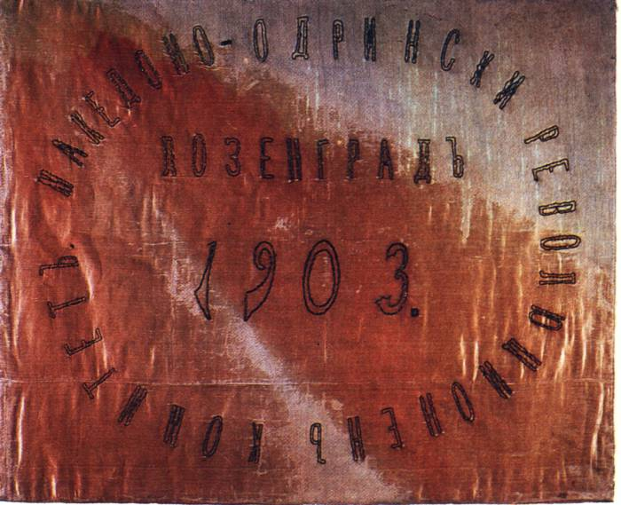 The banner from the insurgents from the Lozengrad cheta during the Preobraszenie uprizing in 1903.